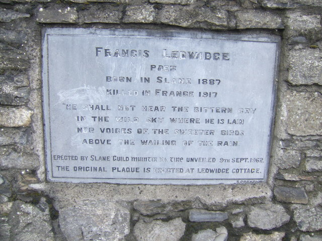 Francis Ledwirge memorial The plaque is at the north end of Slane Bridge, not far from the poet and author's home. See